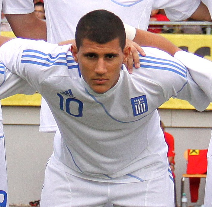 Greece U-21 before the friendly-match against Austria U-21 (2:3), 2011-09-05 in Gloggnitz – The photo shows (from left to right) 1st row: Nikos Kaltsas (Veroia FC), Alexis Apostolopoulos (Paok FC), Nikos Karelis (Ergotelis FC), Kostas Triantafyllou (Panserrakios FC), Christos Chrysofakis (Ergotelis FC); 2nd row: Goiuri Londigin (Skoda Xanthi FC), Apostolos Vellios (Everton FC), Dimitris Stamou (Paok FC), Nikos Mitropoulos (Olympiakos Volou FC), Tassos Avlonitis (Kavala FC), Tassos Laos (Panathinaikos FC).